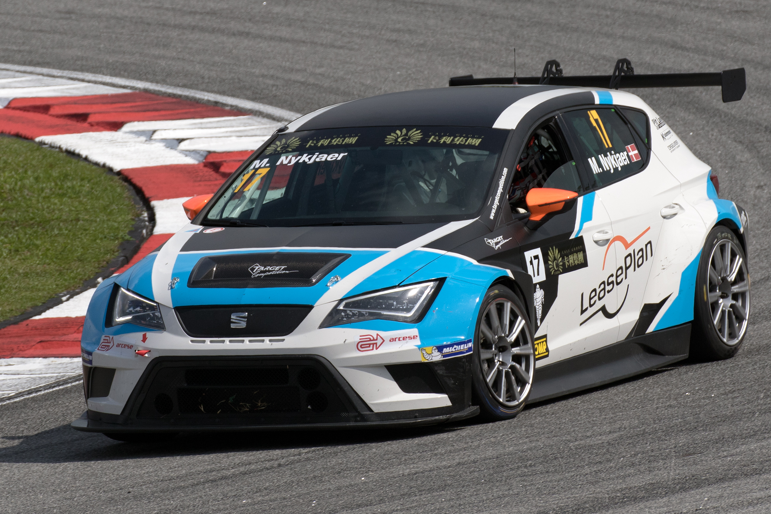 TCR International Series 2015 Rd.1 Malaysia: Michel Nykjær (Zengő Motorsport)